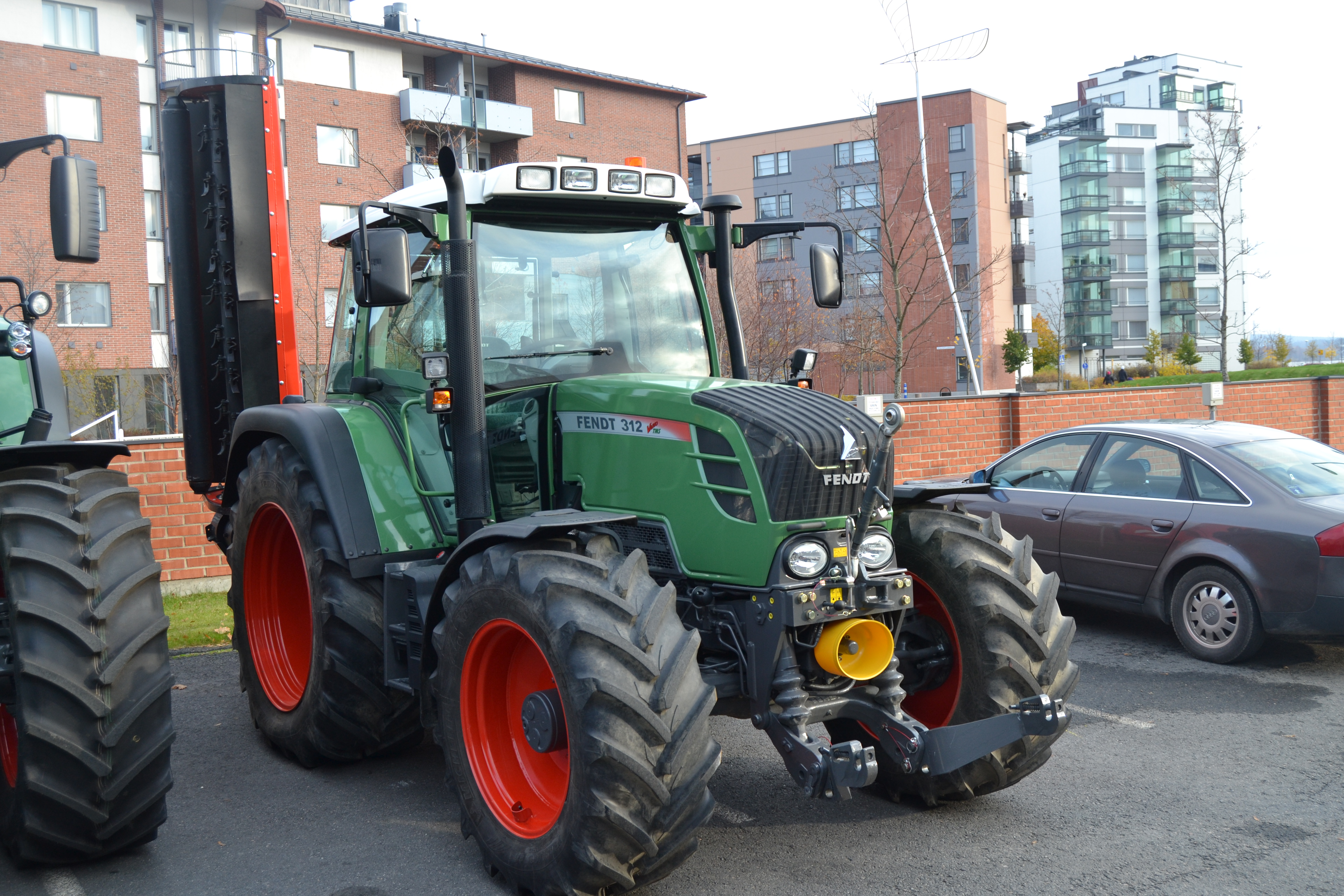 Fendt 312 Vario tractor in Jyväskylä, Finland